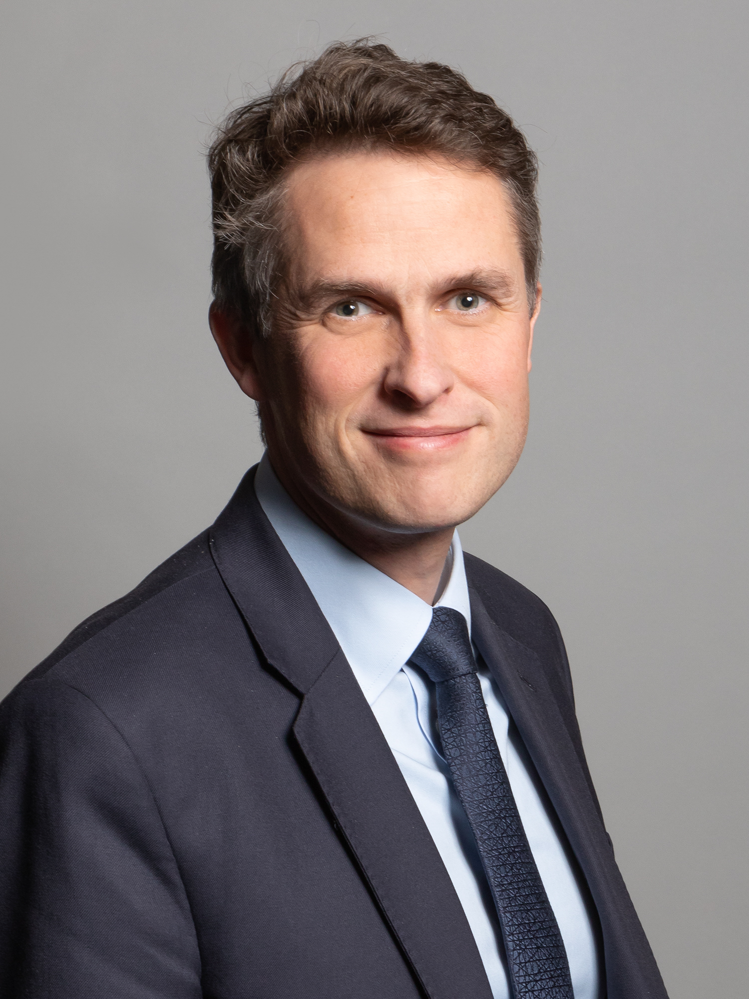 Official portrait of Rt Hon Gavin Williamson MP 3×4 portrait of Gavin Williamson